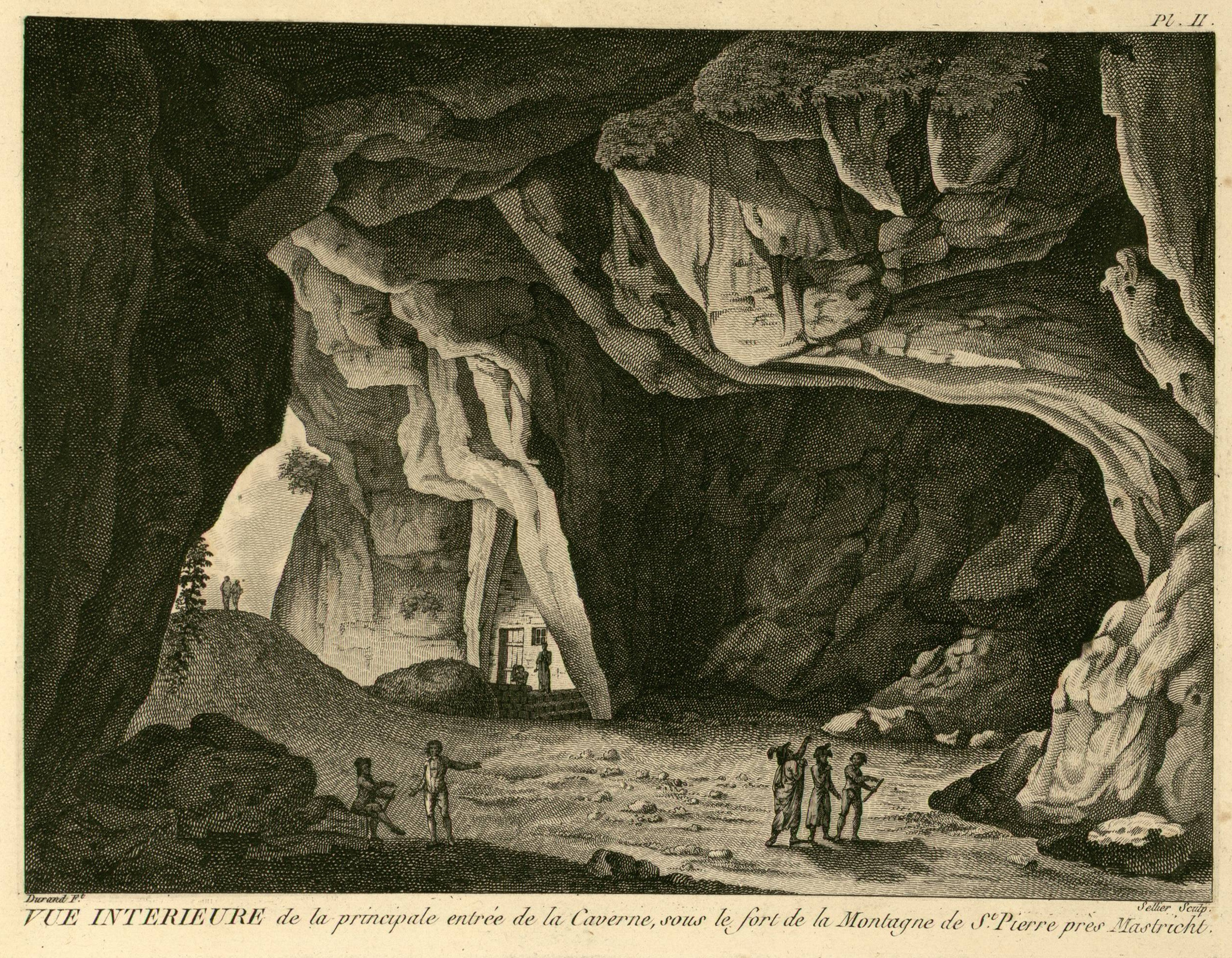 Illustration of the entrance of the cave of St. Pieter near Maastricht in the second volume of the "Histoire naturelle de la montagne de Saint-Pierre de Maestricht" by Barthélemy Faujas de Saint-Fond (1741 - 1819).